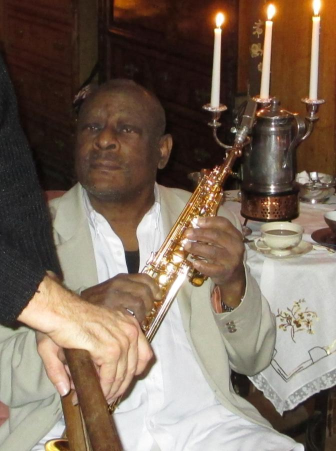 Colin DyallPlace: Lars Jacob residence, Stockholm, Sweden